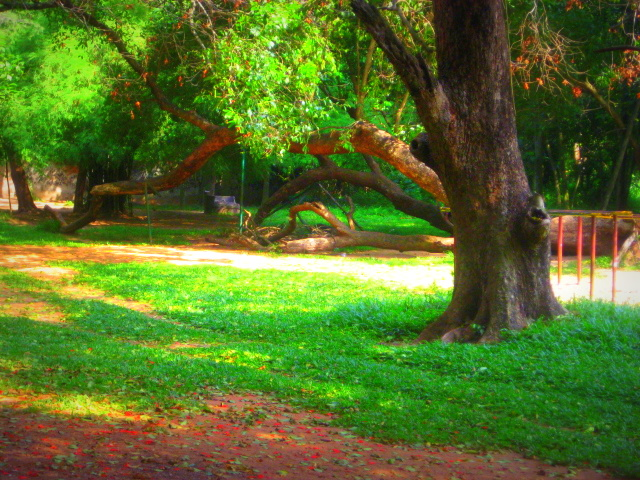 Inside the adventure park, Ashramam, Kollam